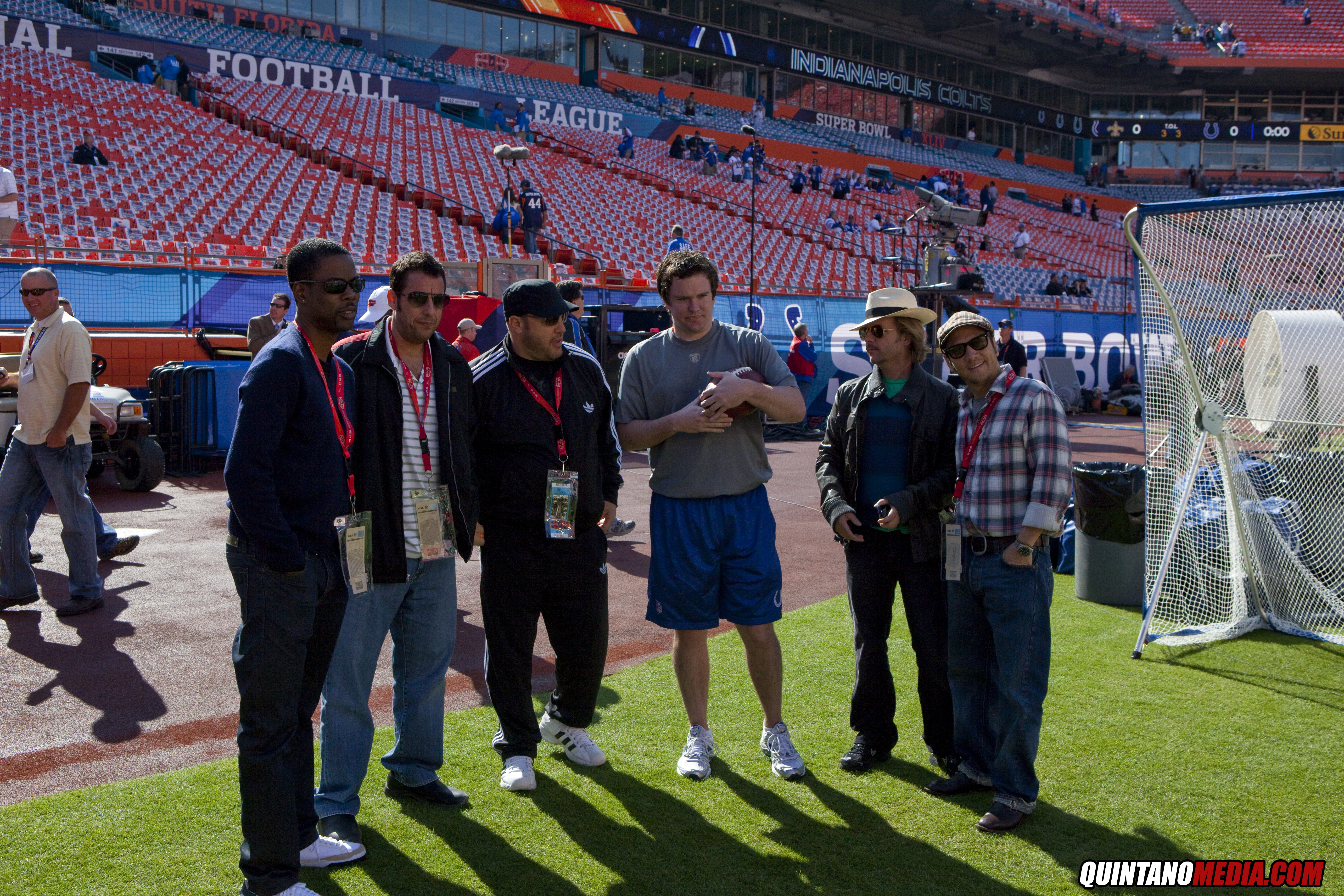 see more here at